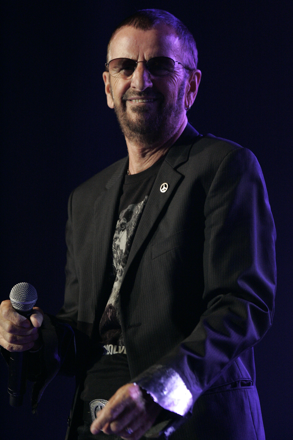 Ringo Starr and his All-Starr Band - Hordern Pavilion, Sydney, Australia